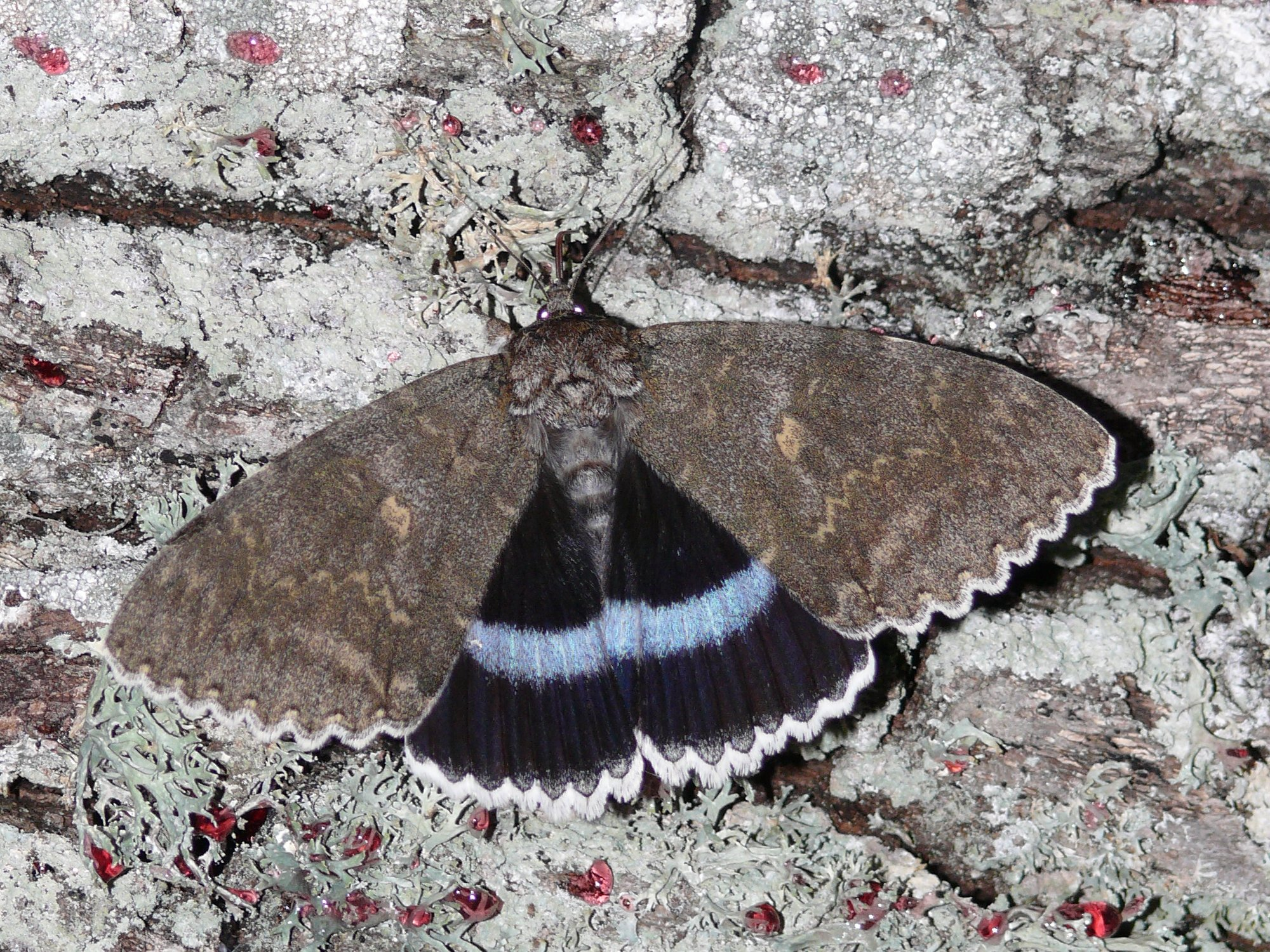 Blue Underwing, Perlacher Forst, Munich Aufgenommen bei einer Exkursion des Arbeitskreises Schmetterlinge der Kreisgruppe München beim Landesbund für Vogelschutz (LBV).